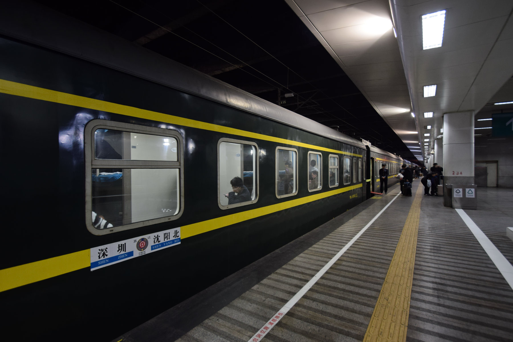 Z186/187 25T Train at Shenzhen Railway Station